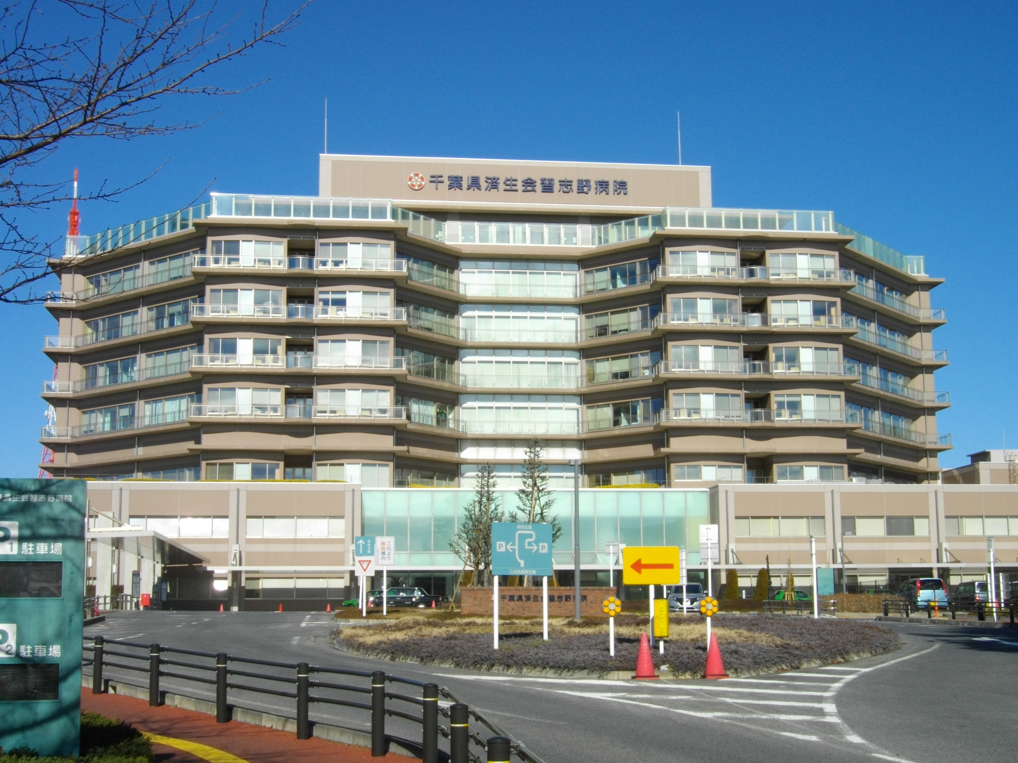 Chibaken Saiseikai Narashino Hospital